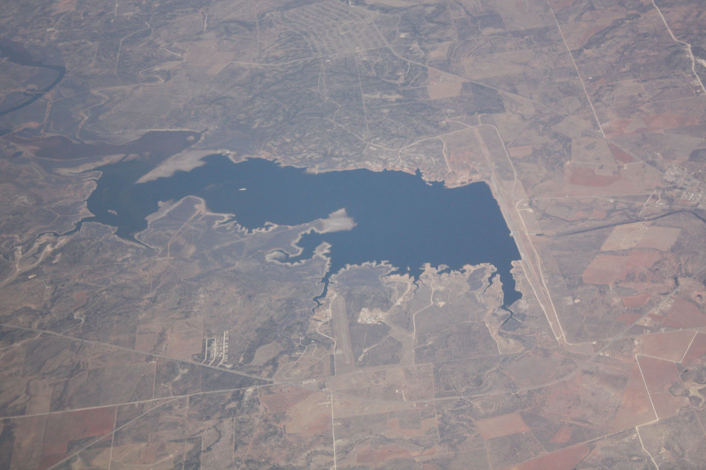 Oblique air photo of E.V. Spence Reservoir, facing northeast, 21 January 2009. Located on the Colorado River (Texas) in Coke County, Texas